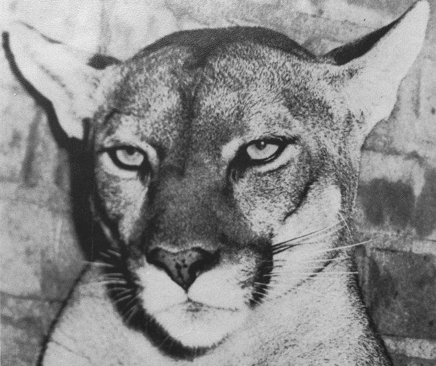 A close-up view of Shasta I, the first live mascot of the University of Houston